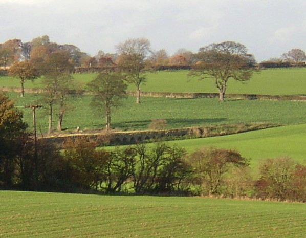 Railway viaduct, Midgley, Sitlington CP This view shows some of the twenty arches of the viaduct that carried the Old Flockton Colliery's railway to Lane End Pit. It was built before 1803 and was used until 1893.